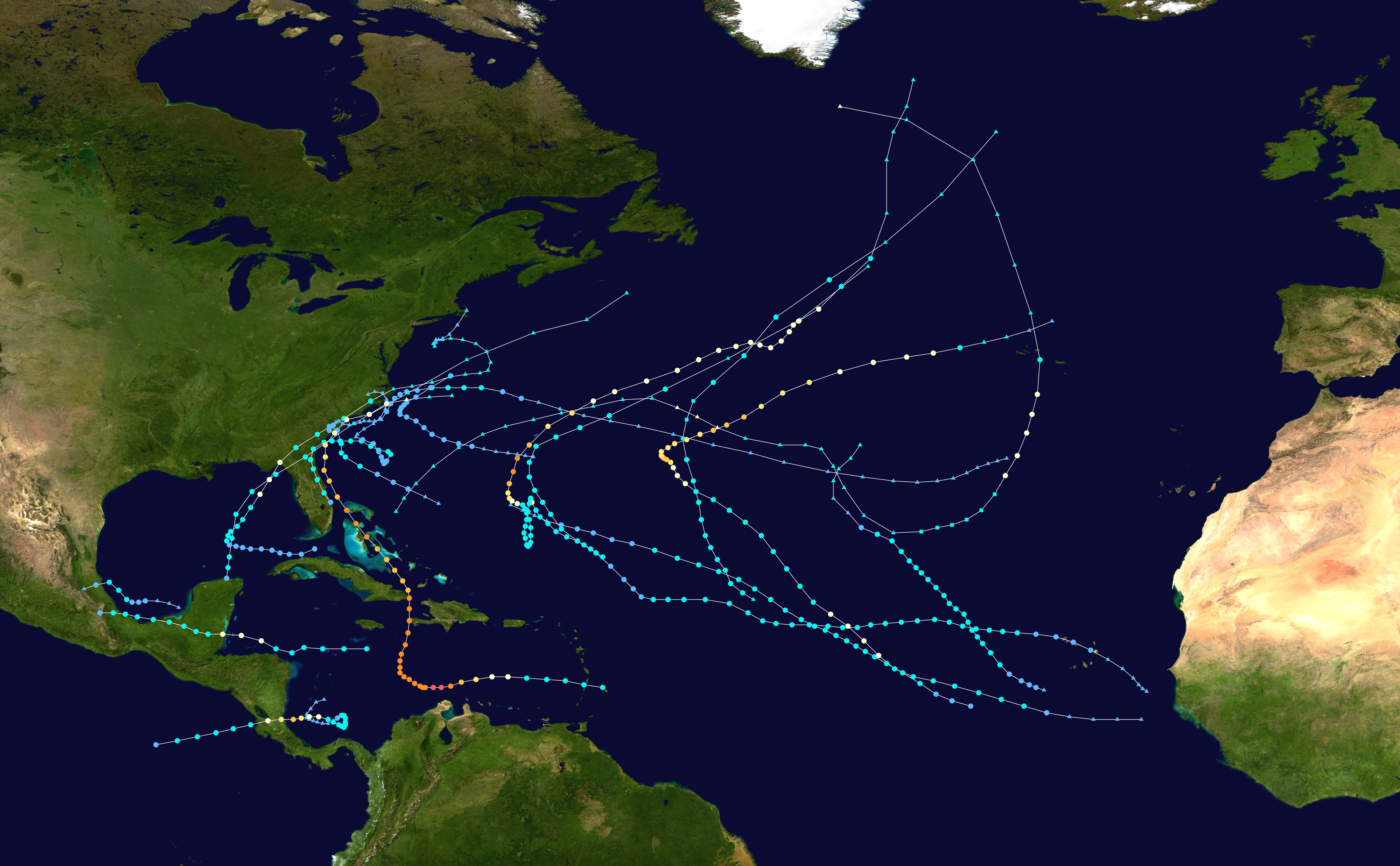 This map shows the tracks of all tropical cyclones in the 2016 Atlantic hurricane season. The points show the location of each storm at 6-hour intervals. The colour represents the storm's maximum sustained wind speeds as classified in the Saffir-Simpson Hurricane Scale (see below), and the shape of the data points represent the type of the storm. Saffir–Simpson hurricane wind scale Tropical depression≤38 mph≤62 km/h Category 3111–129 mph178–208 km/h Tropical storm39–73 mph63–118 km/h Category 4130–156 mph209–251 km/h Category 174–95 mph119–153 km/h Category 5≥157 mph≥252 km/h Category 296–110 mph154–177 km/h Unknown Storm typeTropical cycloneSubtropical cycloneExtratropical cyclone / Remnant low / Tropical disturbance